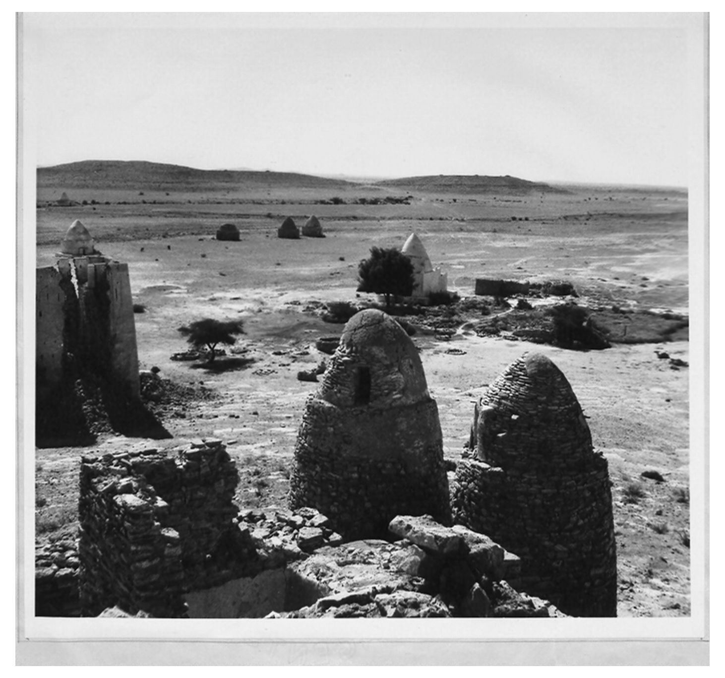 Taleh fort in British Somaliland 1930.